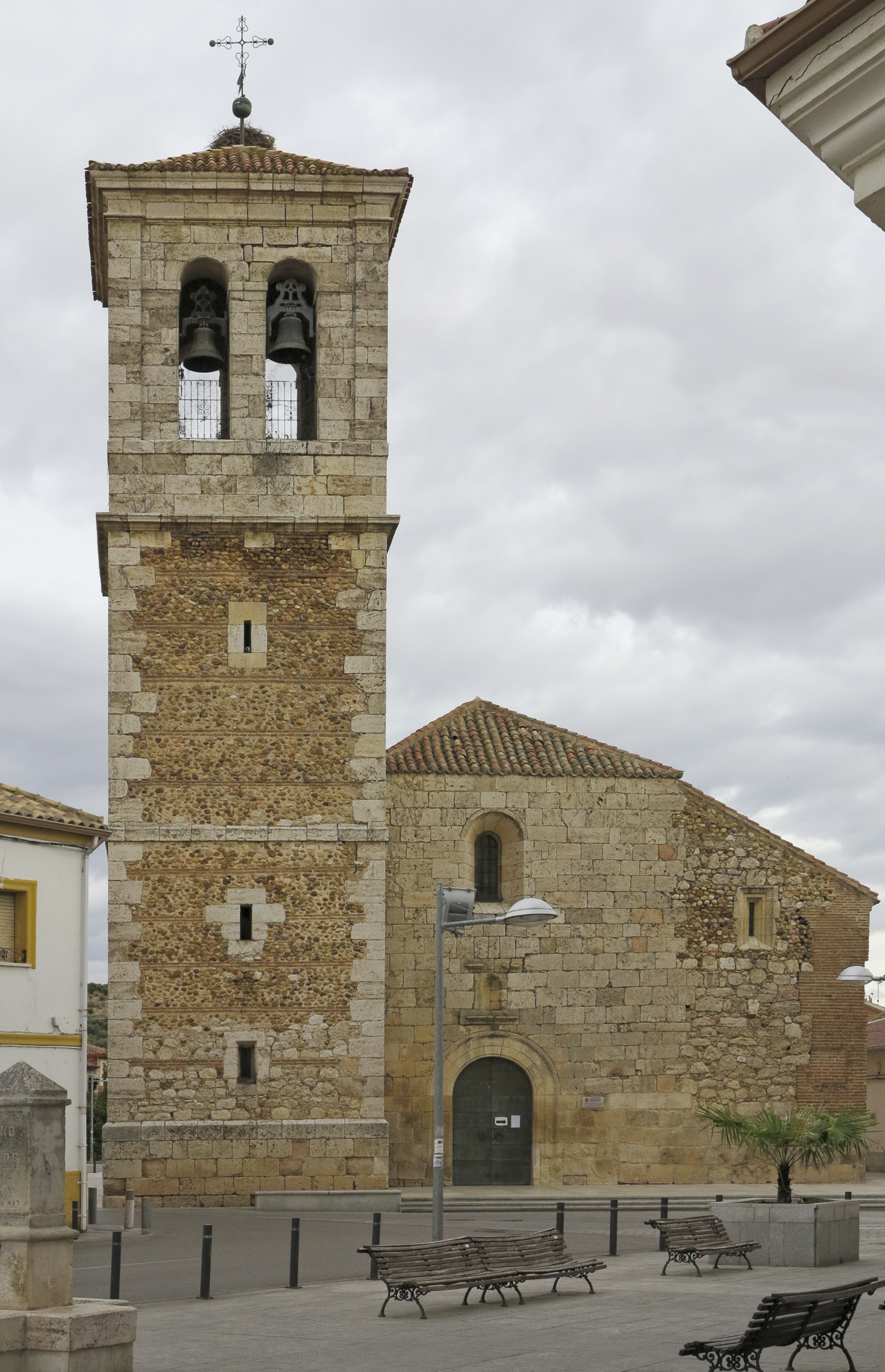 Camarma de Esteruelas. Spain. Iglesia San Pedro Apostól.